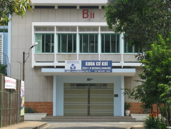 Faculty of Mechanical Engineering